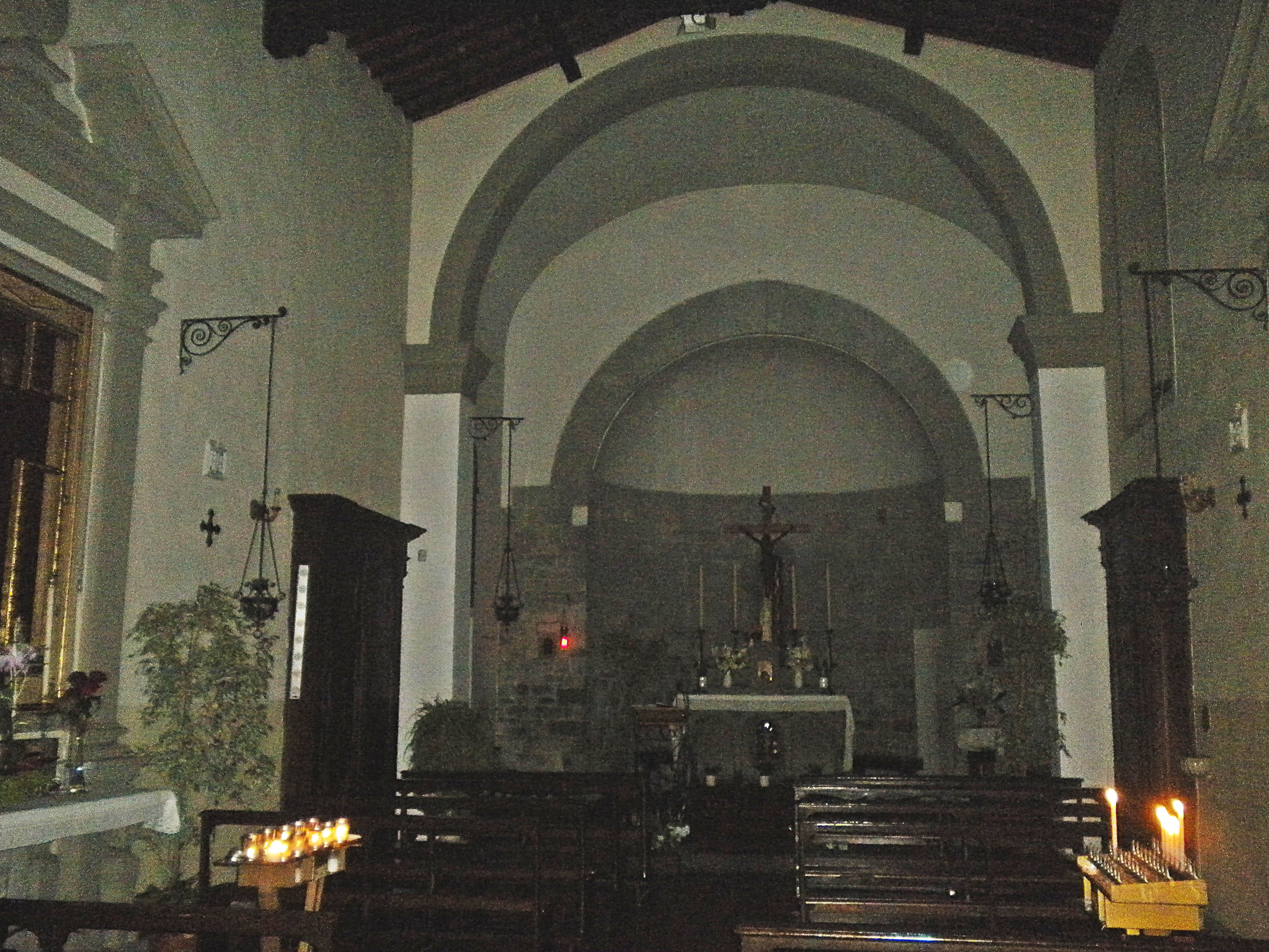 the nave